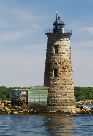 Whaleback Light shown from the water at the mouth of the Piscataqua River.